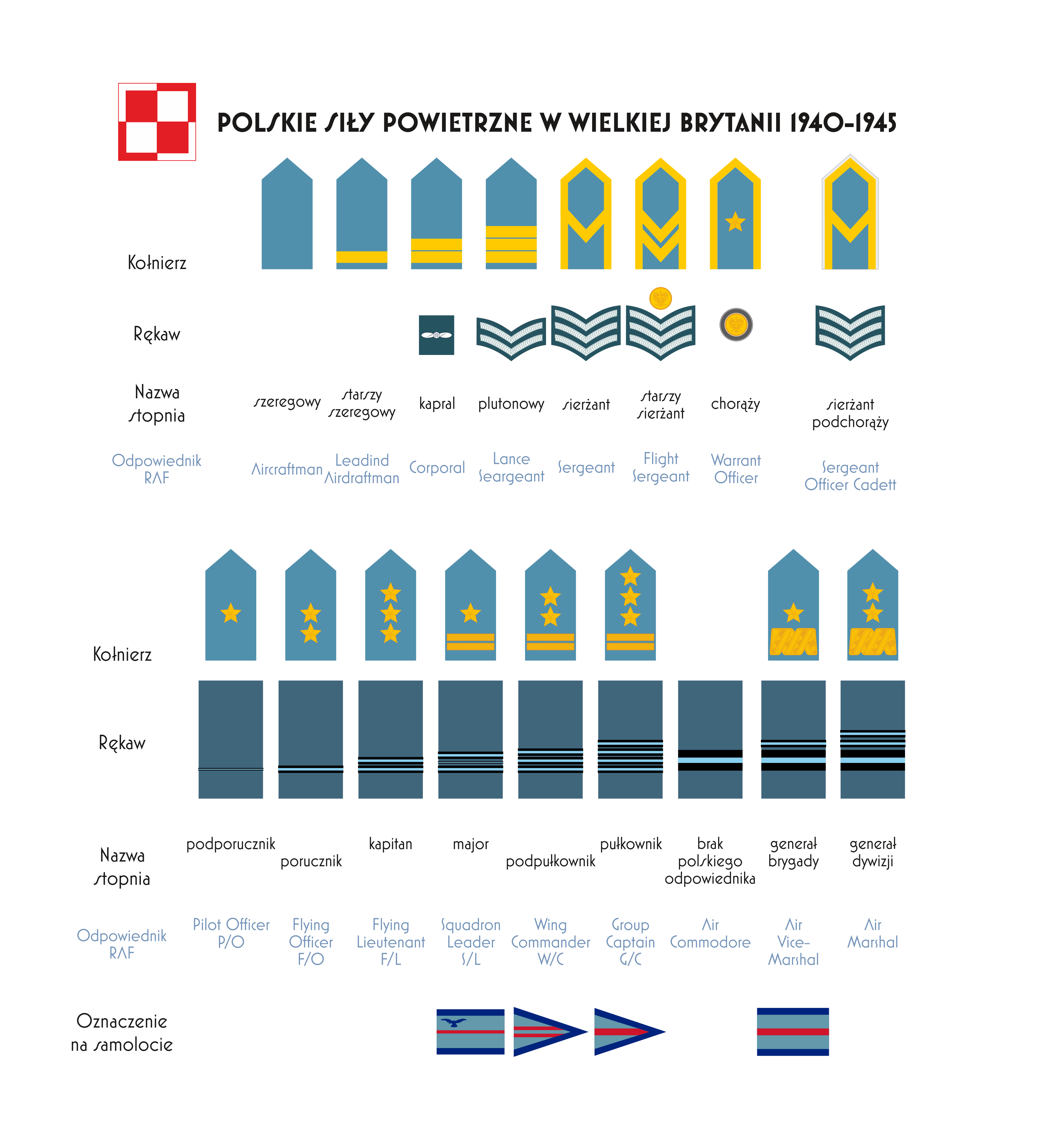 Rank Insignia Polish Air Forces in UK 1940-45